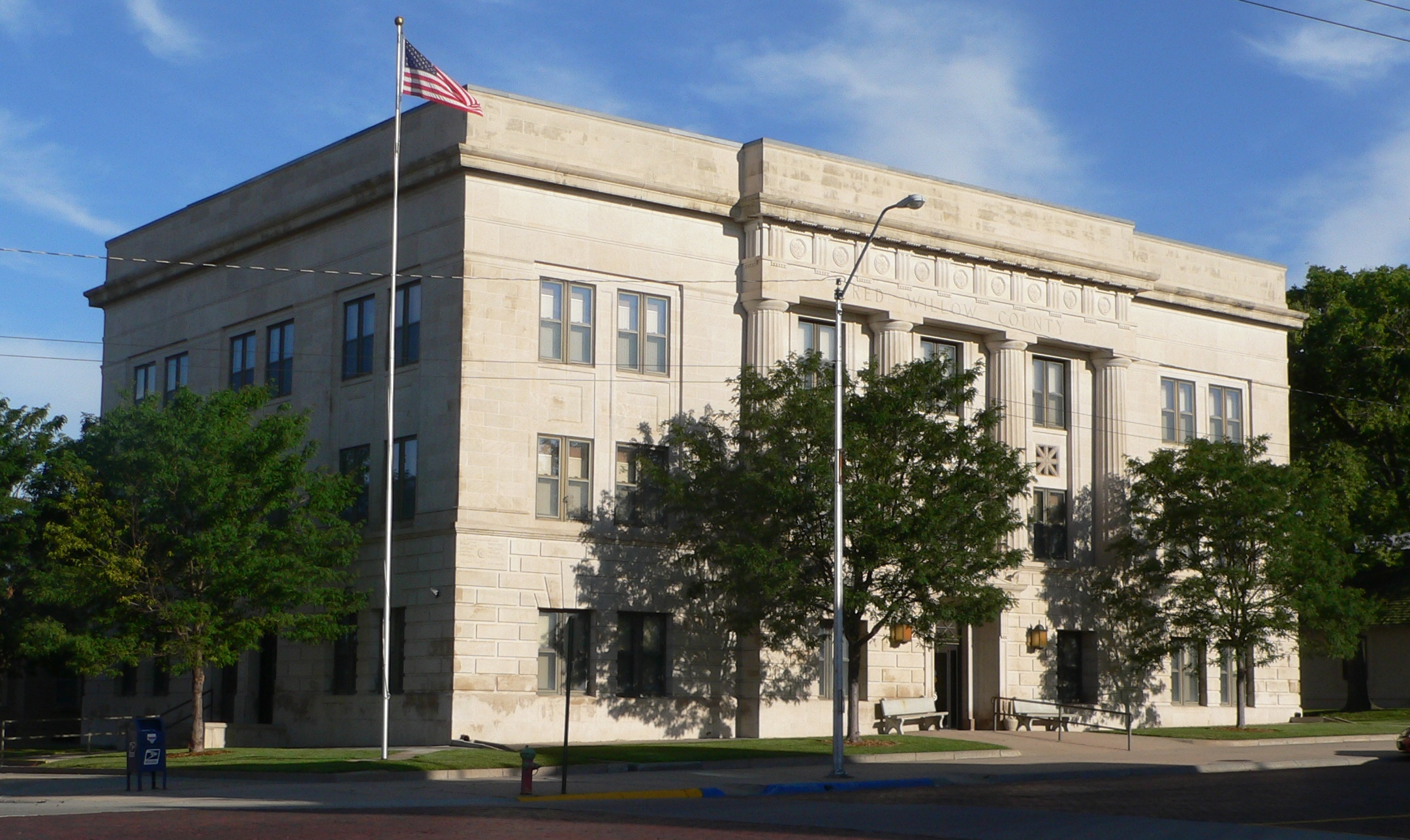 Red Willow County Courthouse in McCook, Nebraska; seen from the southeast. The Classical Revival building was constructed in 1926. It is listed in the National Register of Historic Places.